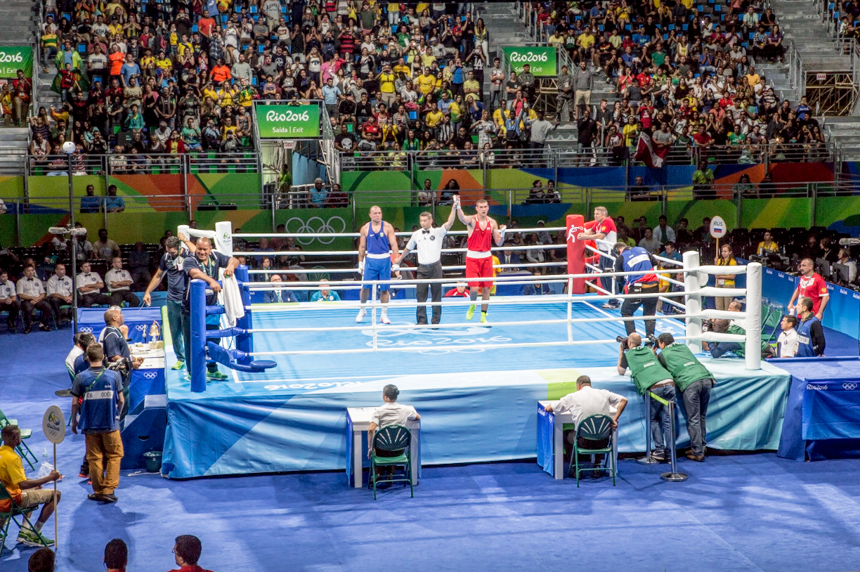 Day 3 at the 2016 Summer Olympics. Boxing 91 kg. Round of 16, Evgeny Tishchenko (Russia) vs Juan Nogueira (Brazil)